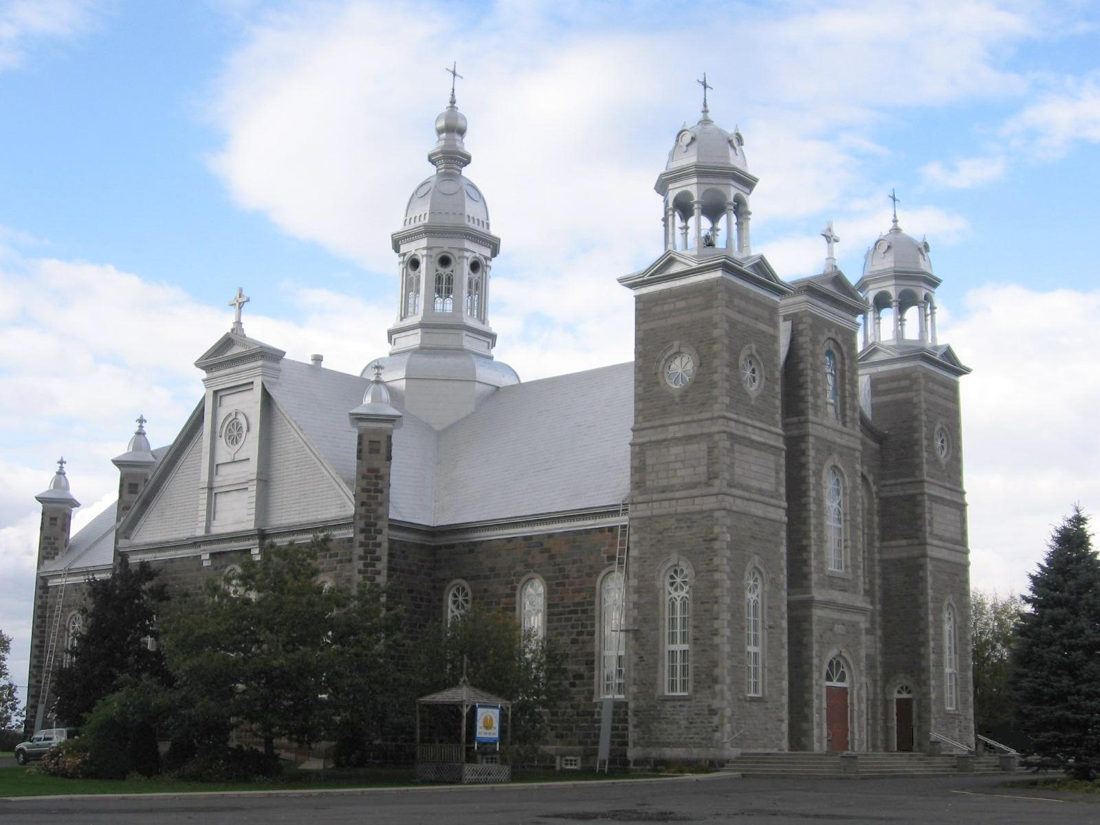 Saint-Cyrille-de-Wendover Church